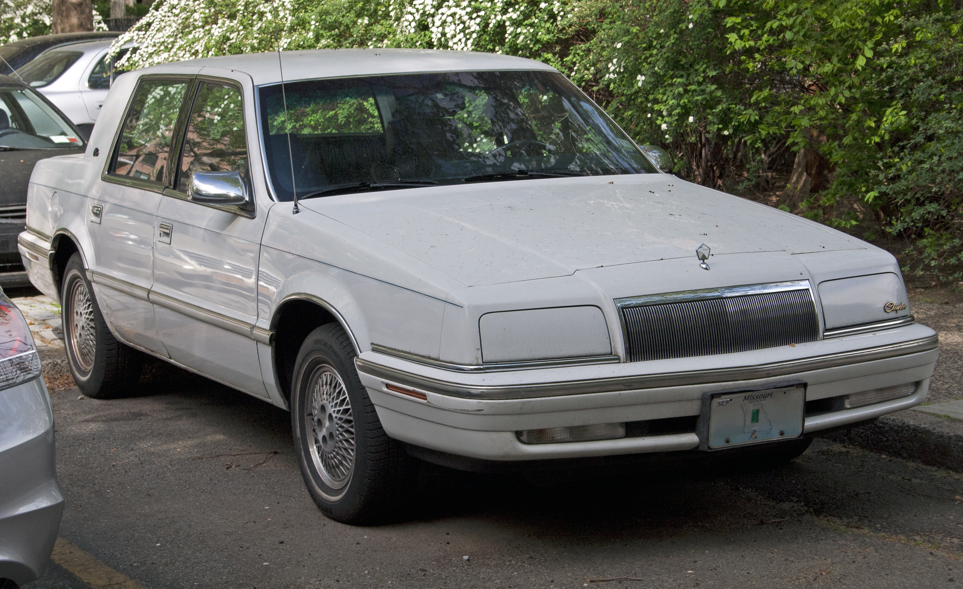 1992 or 1993 Chrysler New Yorker Salon, cheapo version which lacks essentials such as a vinyl roof.